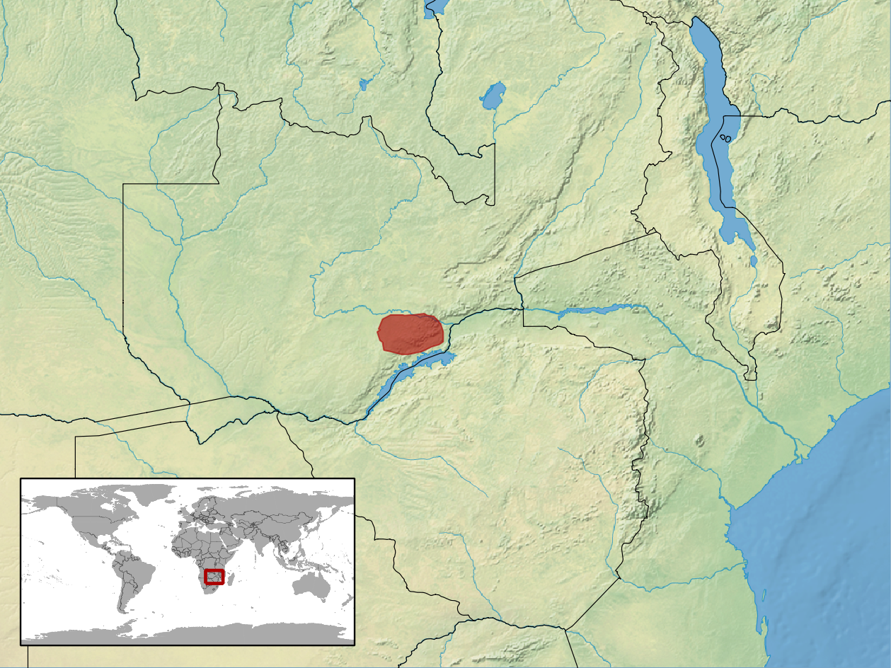 geographic distribution of Zygaspis kafuensis (Native: Zambia)